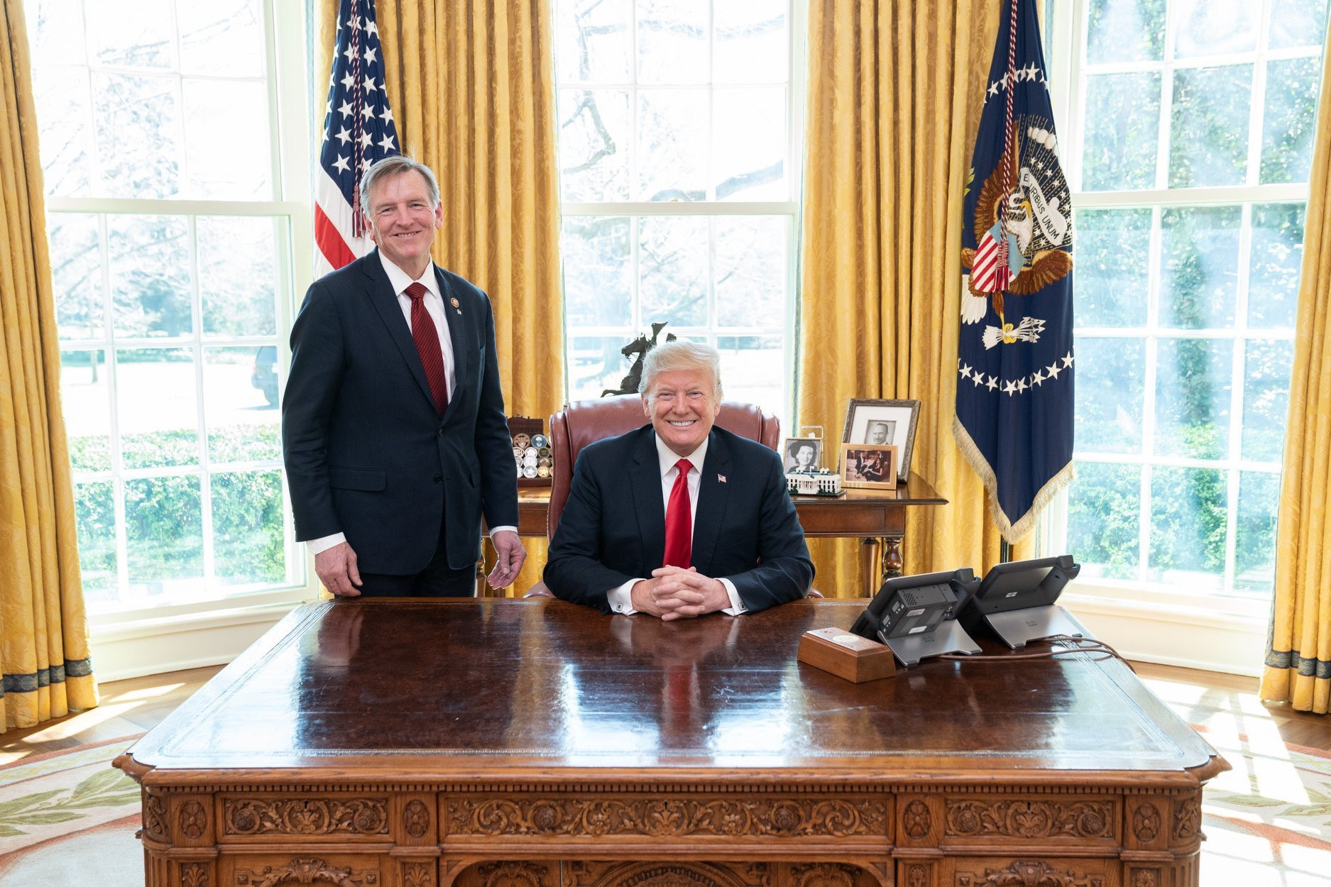 With today’s vote, Democrats put their hatred of @realDonaldTrump above their love for America. I stand with @POTUS! 🇺🇸